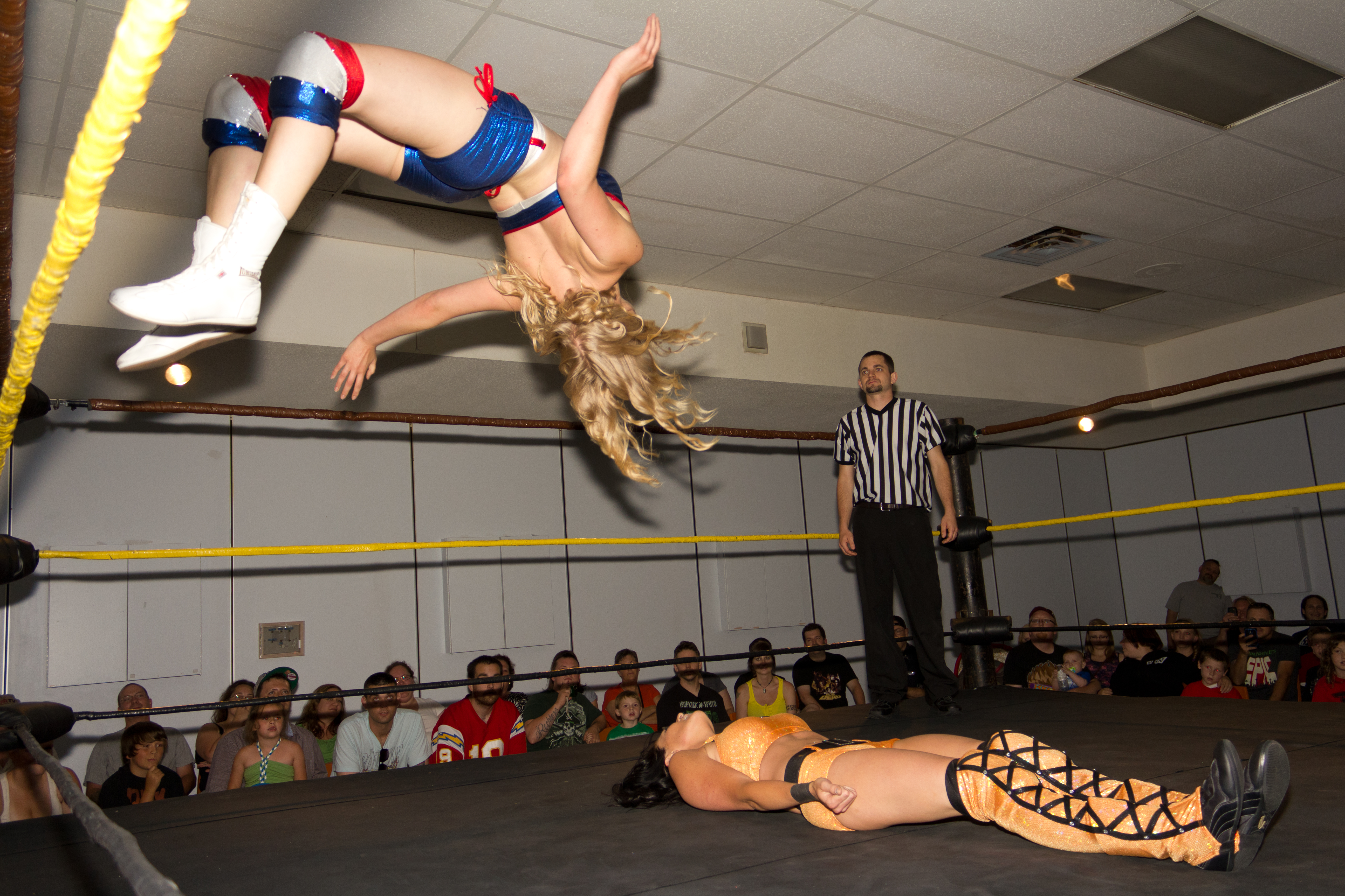 Independent wrestler Leah von Dutch (in blue outfit) executing her Flying Dutchman manoeuver (aka an Asai Moonsault) onto Ianna Titus (in gold).